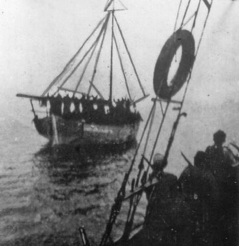 Enemy vessel seized by the army of Greek People's Liberation Navy, WW II This media file is produced by Wikipedian in Residence in Category:Wikipedian in Residence at DARM in 2016.